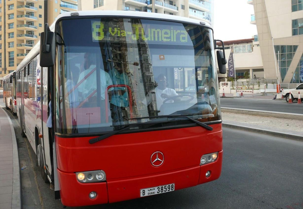 This is a photo of a Dubai Bus (Route 8), sitting in Dubai Marina in Dubai, United Arab Emirates, on 26 December 2007. The bus is a Mercedes-Benz Conecto.